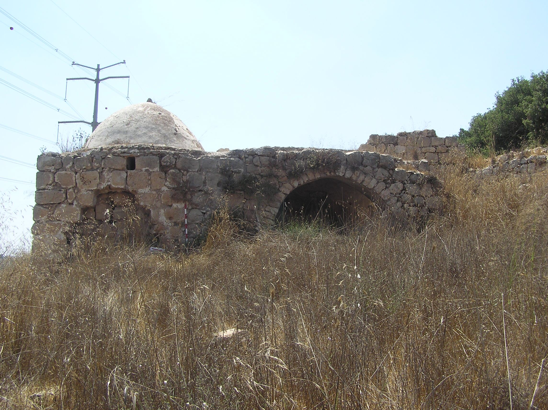 Maqam of Sheikh Ahmad al-Hubani near Bar Giora